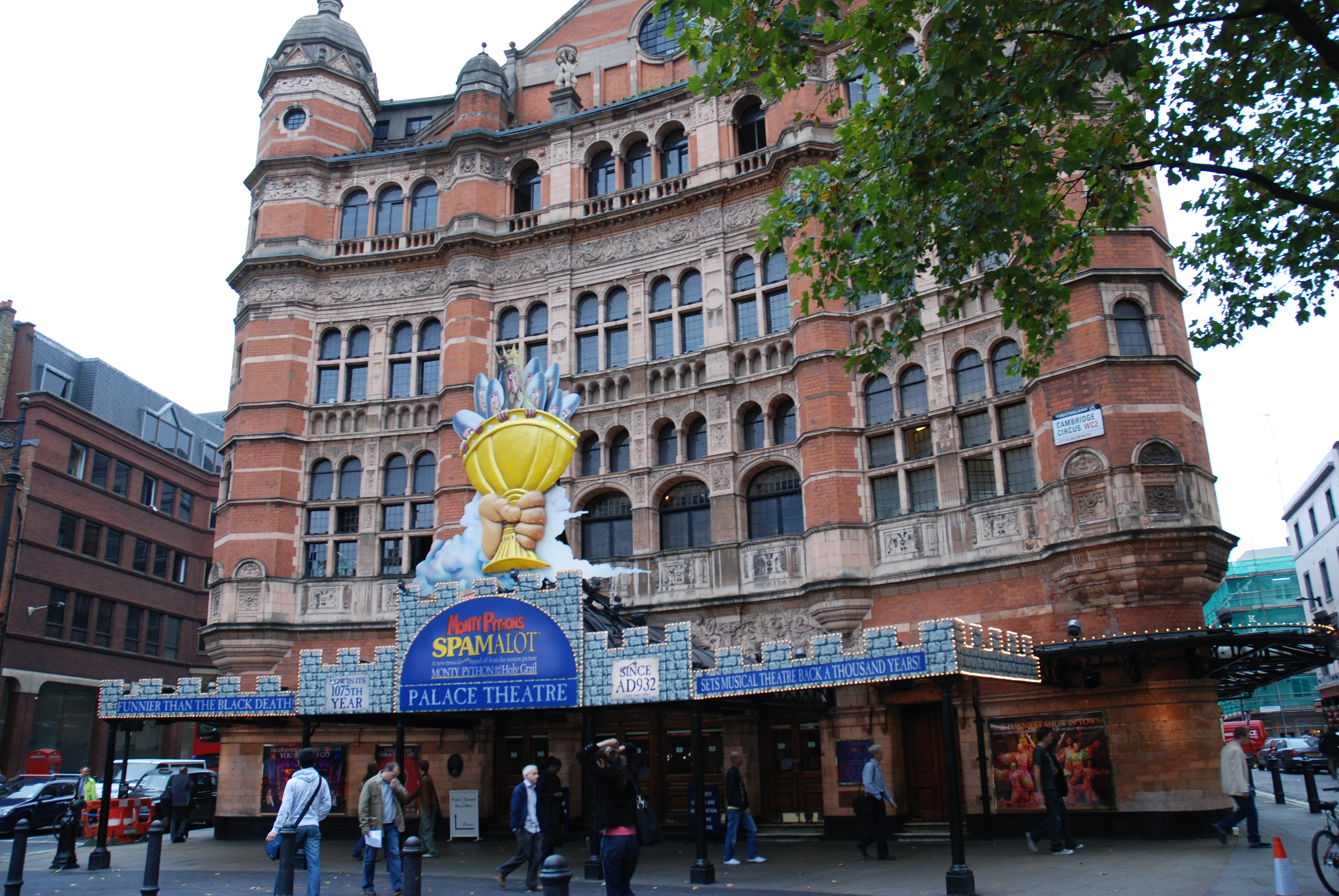 View of the Palace theatre, London, while showing Spamalot in October 2008.